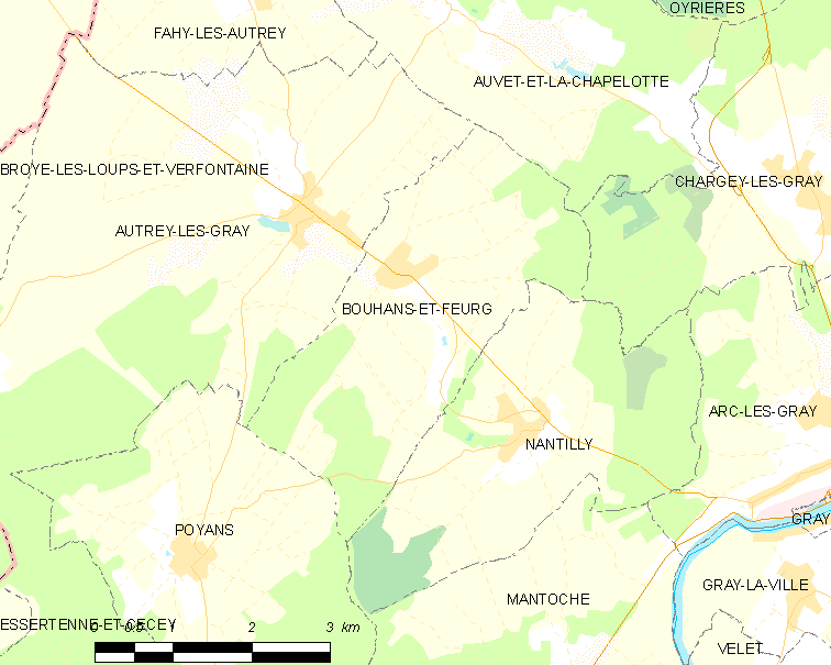 Map of French municipality